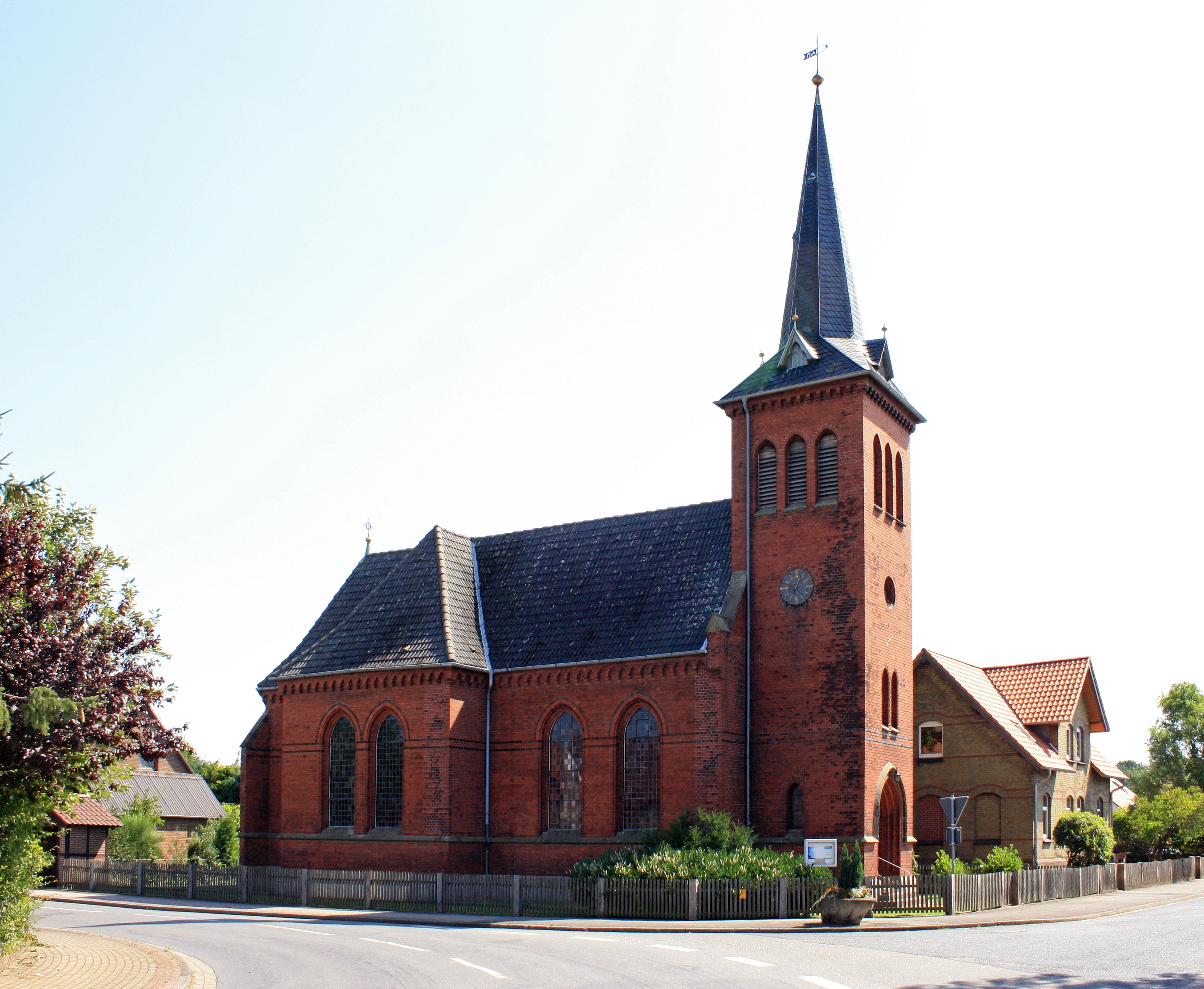 The Saint Martin church in Wendeburg-Sophiental